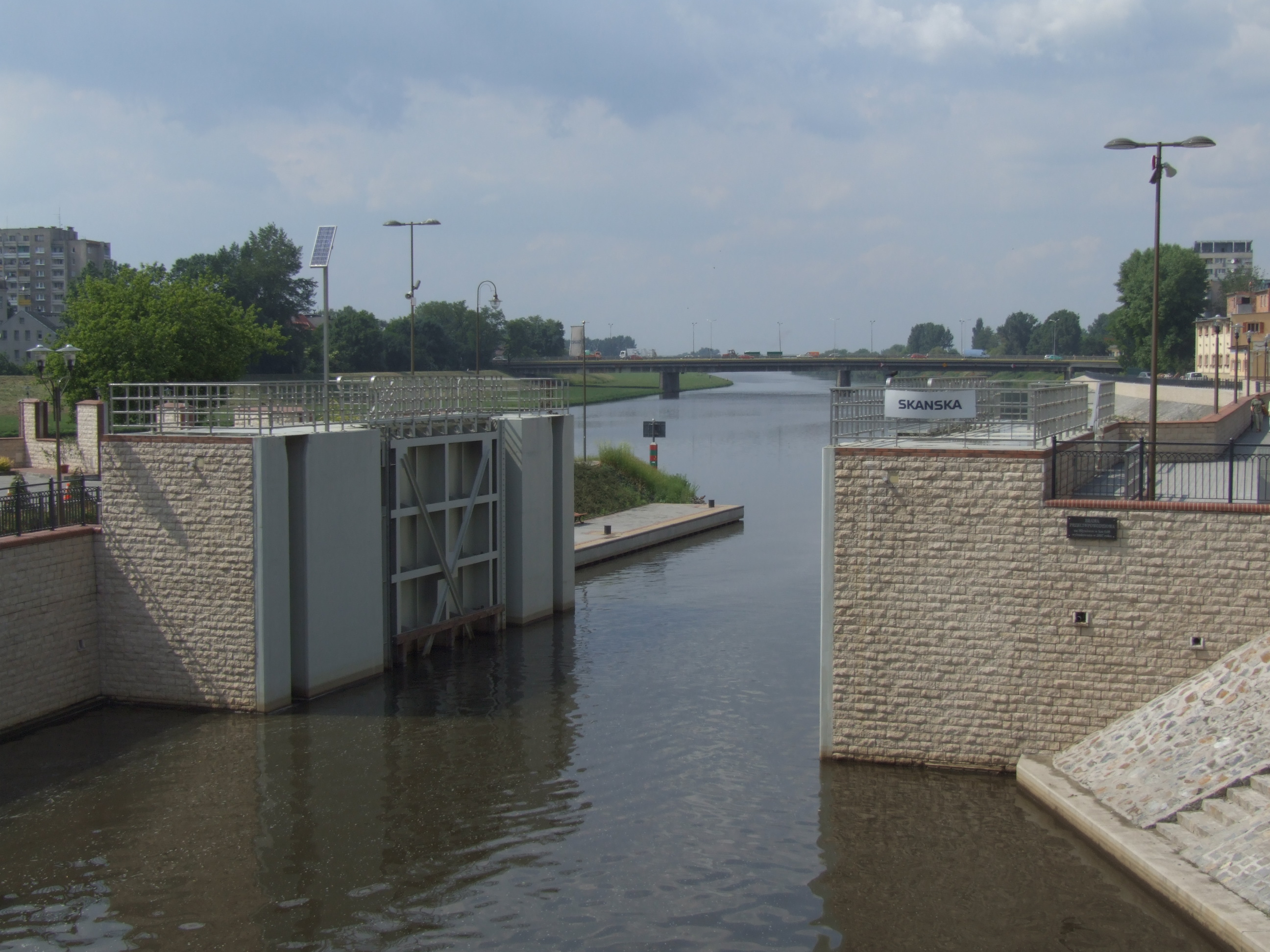 Lock on Młynówka canal (Oder river) in Oppeln (Opole), Upper Silesia